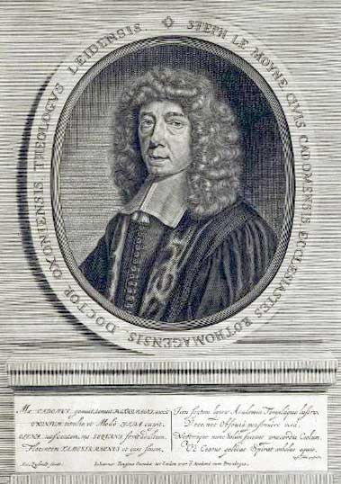 Stephen le Moine also: Etienne Le Moyne, Monachus, (1624-1689) French Reformed theologian